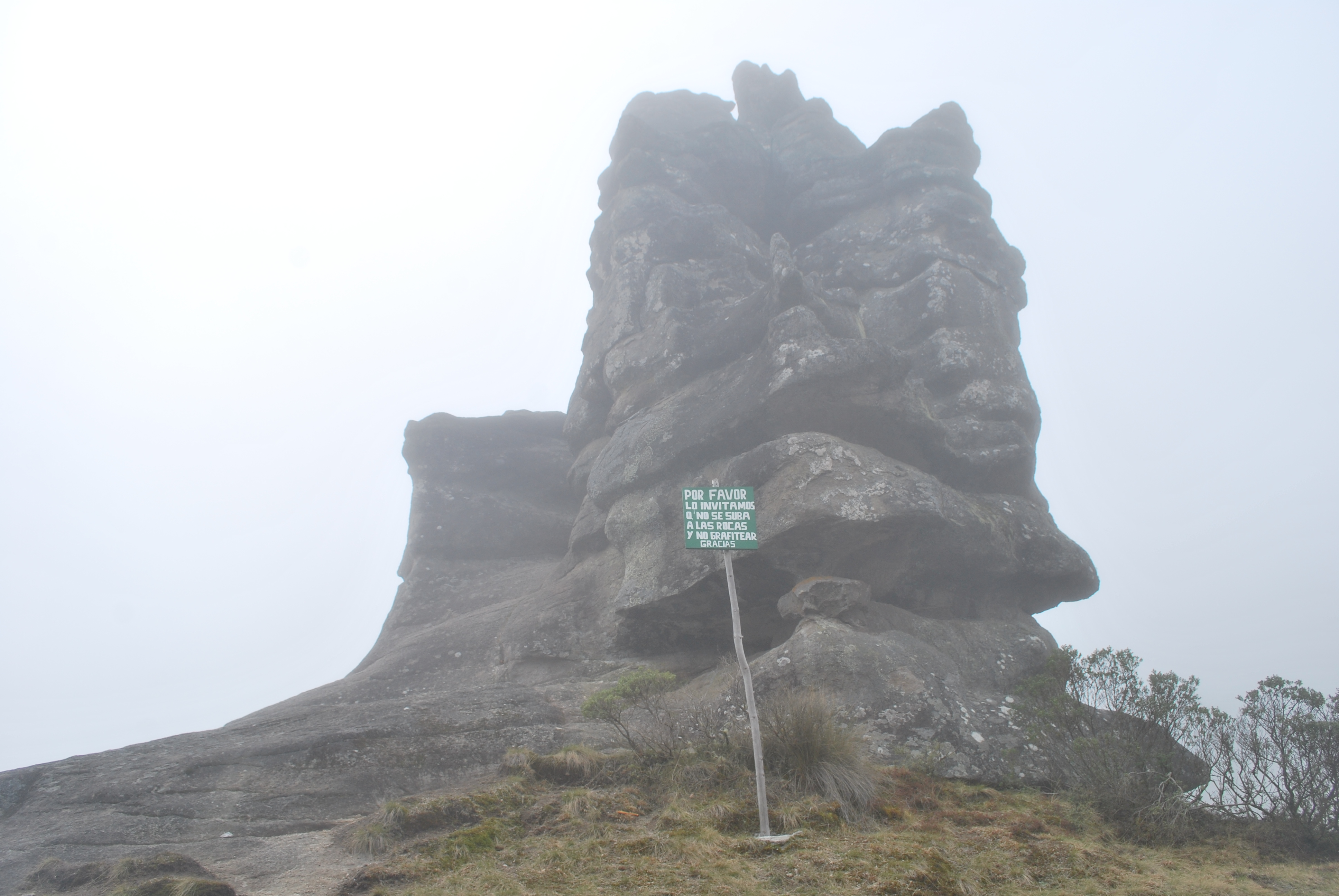 Rock formation in fog at the Valle de las Piedras Encimadas park in Zacatlán, Puebla, Mexico